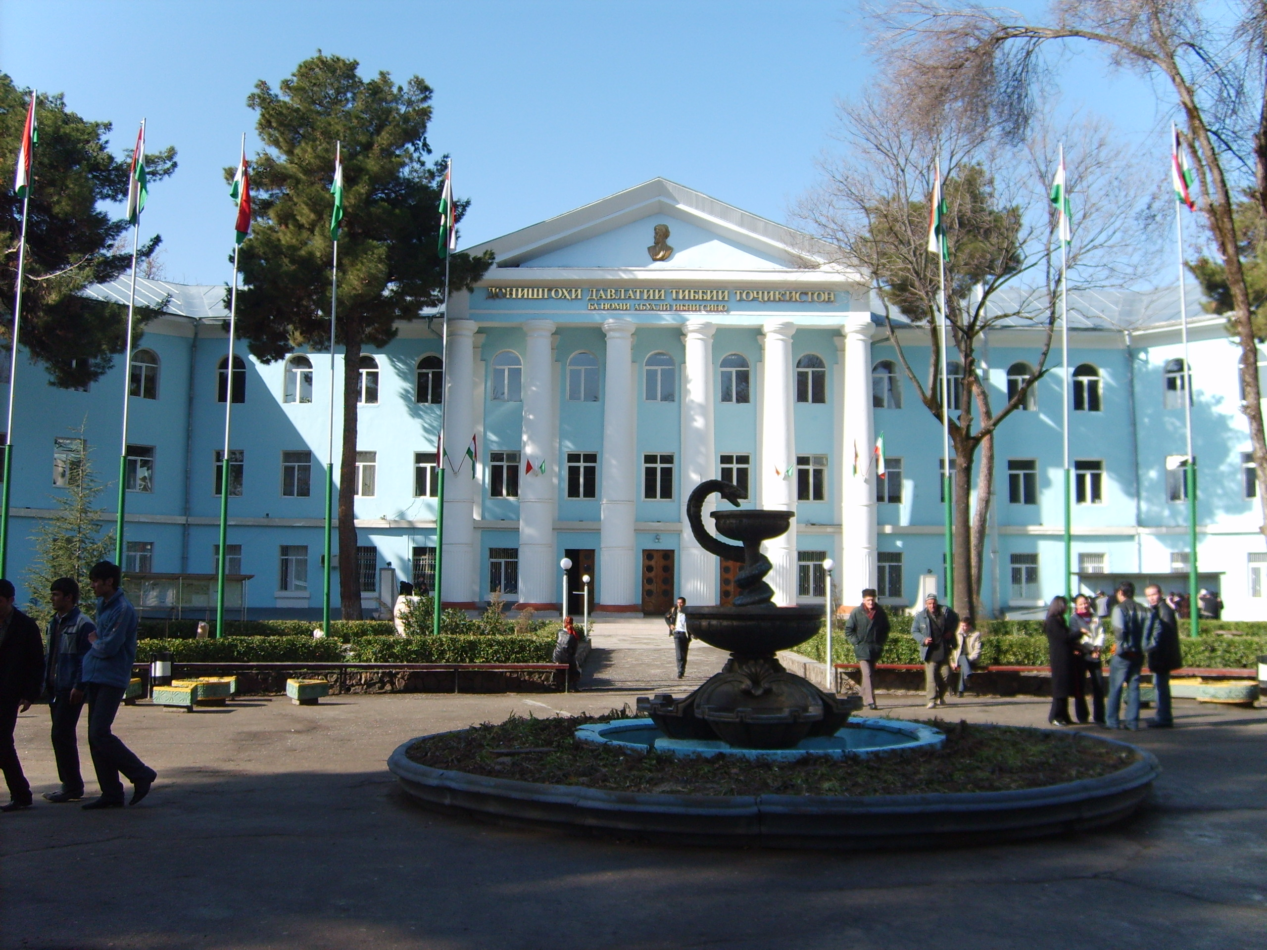 Abul Sino State Medical University of Tajikistan